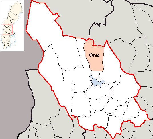 Orsa Municipality in Dalarna County Designd by me, based on Image:Dalarna County.png